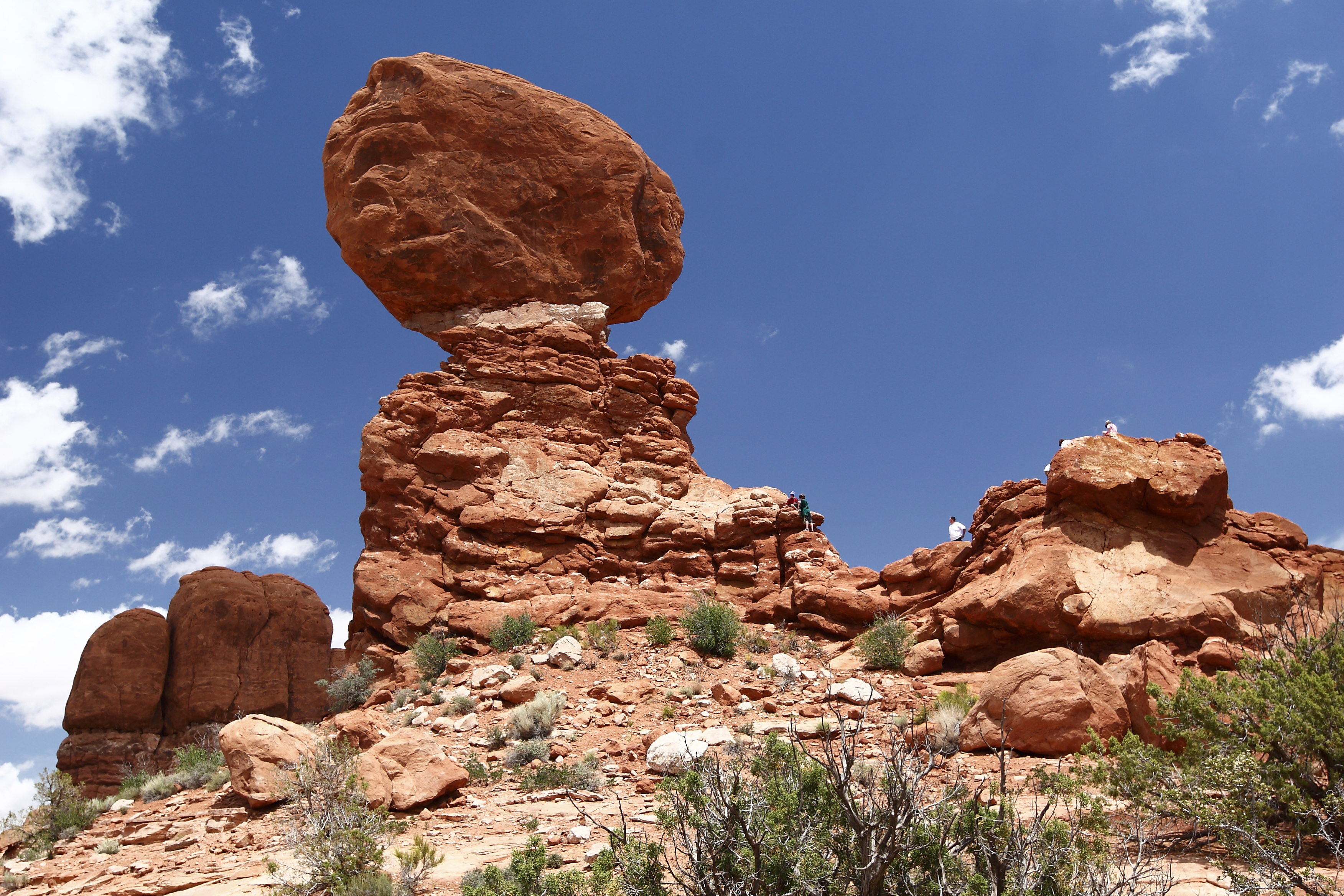 Picture of Balanced Rock at Arches National Park, Utah, USA.